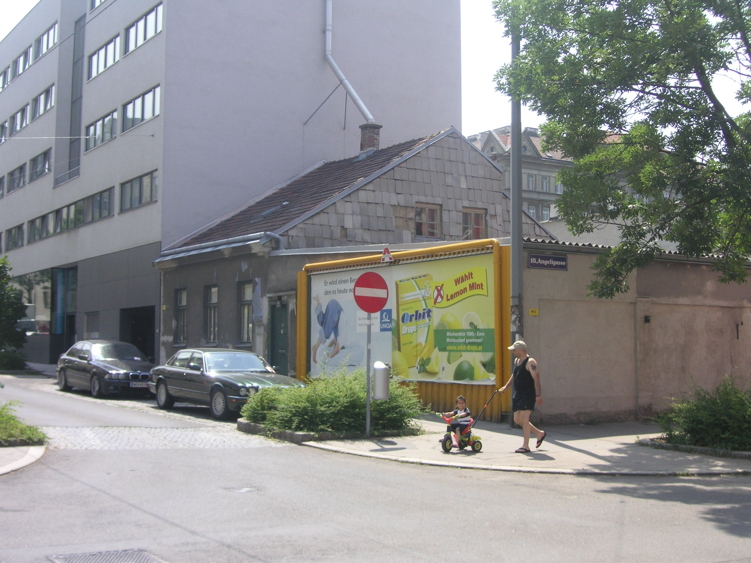 Street scene, corner of Siccardsburggasse and Angeligasse, Favoriten, Vienna, Austria.